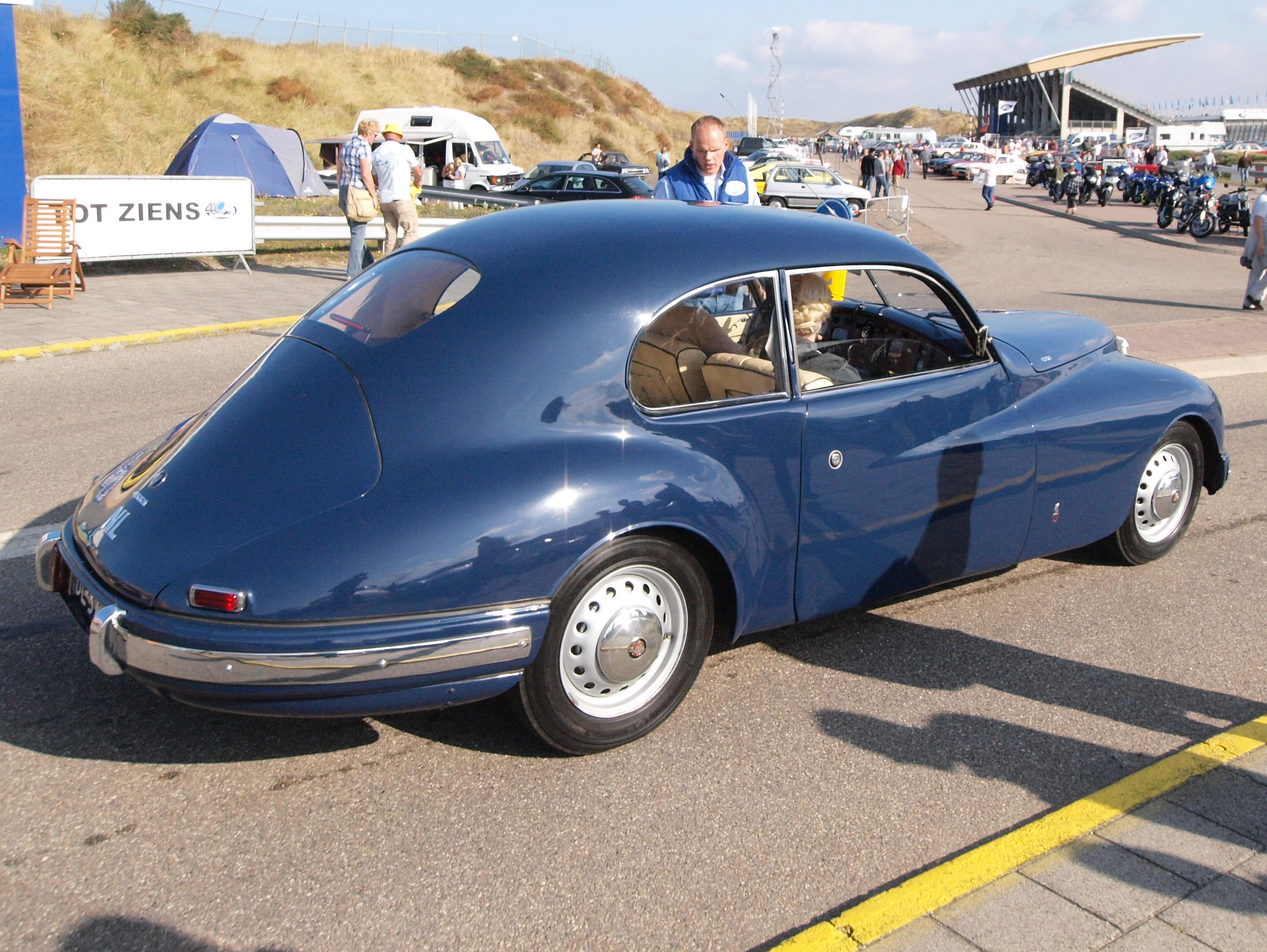 Photographed at the Nationaal Oldtimer Festival Zandvoort 2009, The Netherlands. OLYMPUS DIGITAL CAMERA